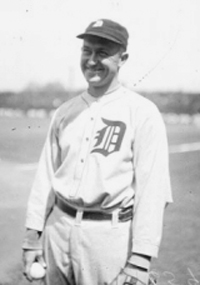 Ty Cobb in 1926; SDN-065975, Chicago Daily News negatives collection, Chicago Historical Society.